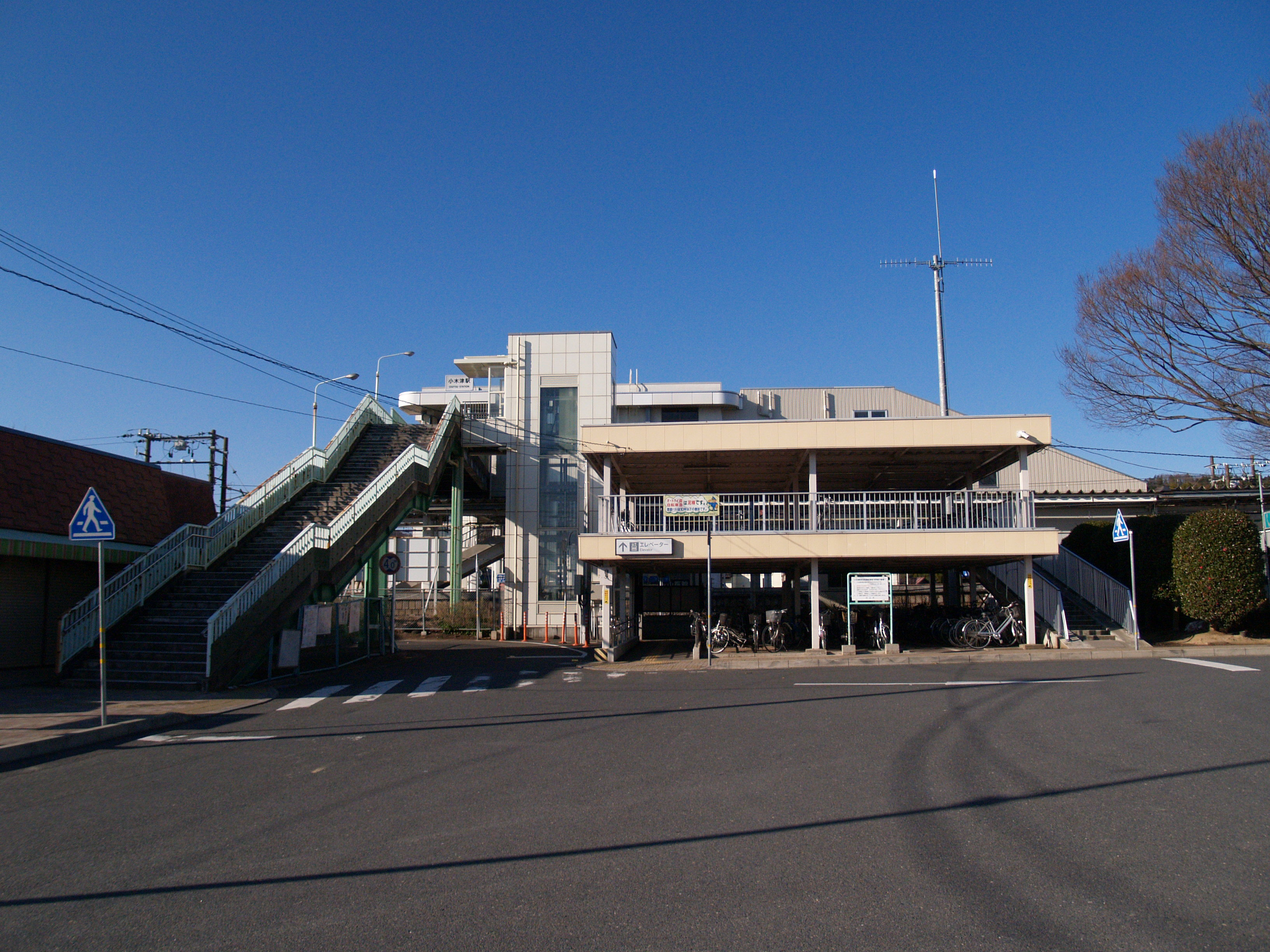 East entrance of Ogitsu Station